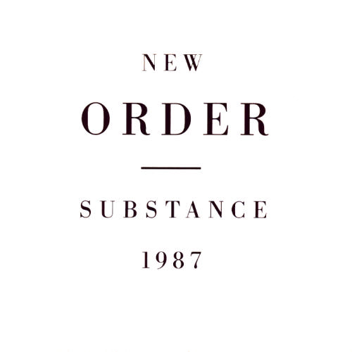 The cover of the CD version of the album Substance by New Order.